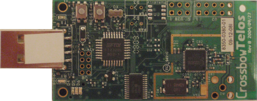 A wireless sensor node of type TelosB by Crossbow Technology